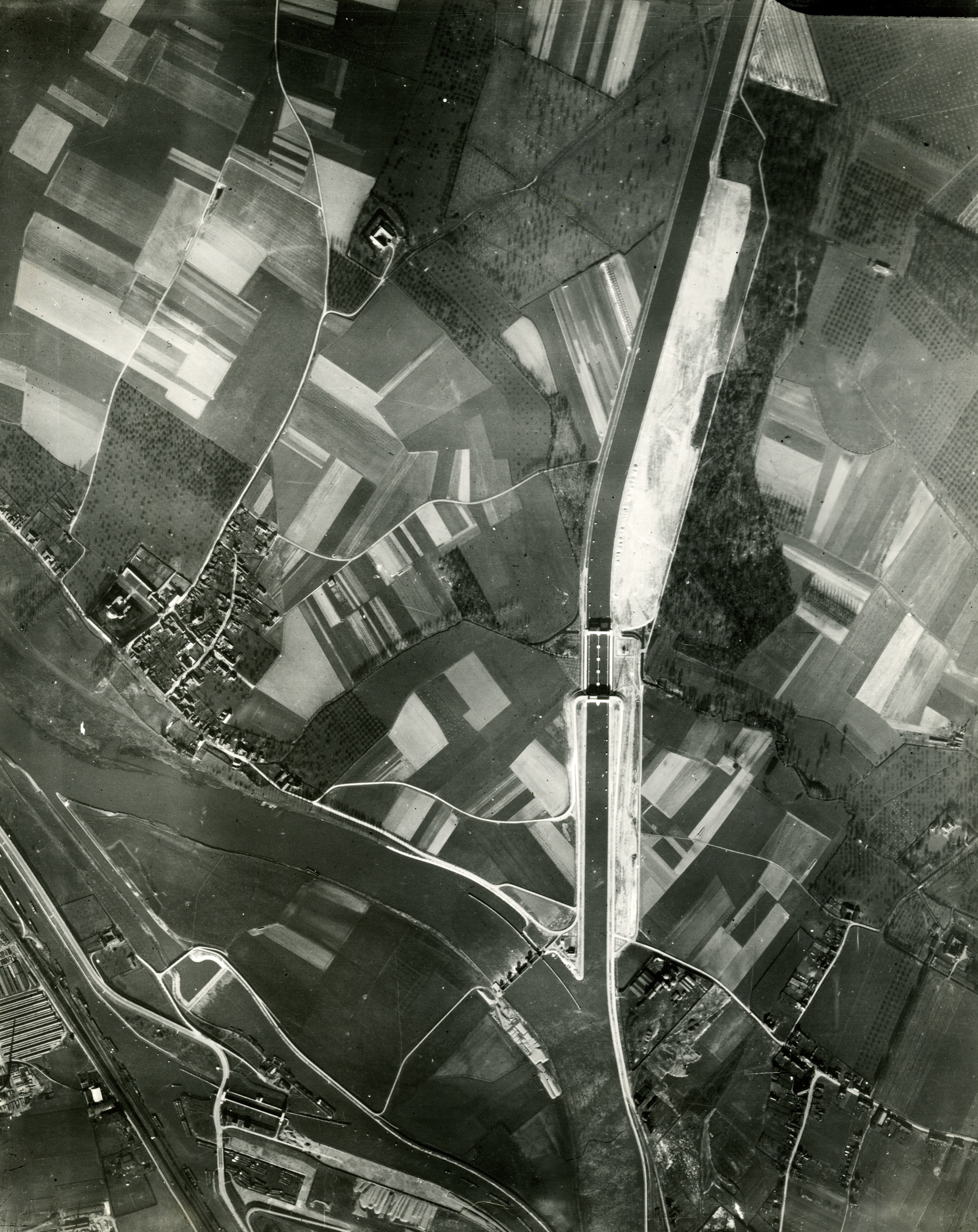 Aerial photograph of Borgharen, The Netherlands.